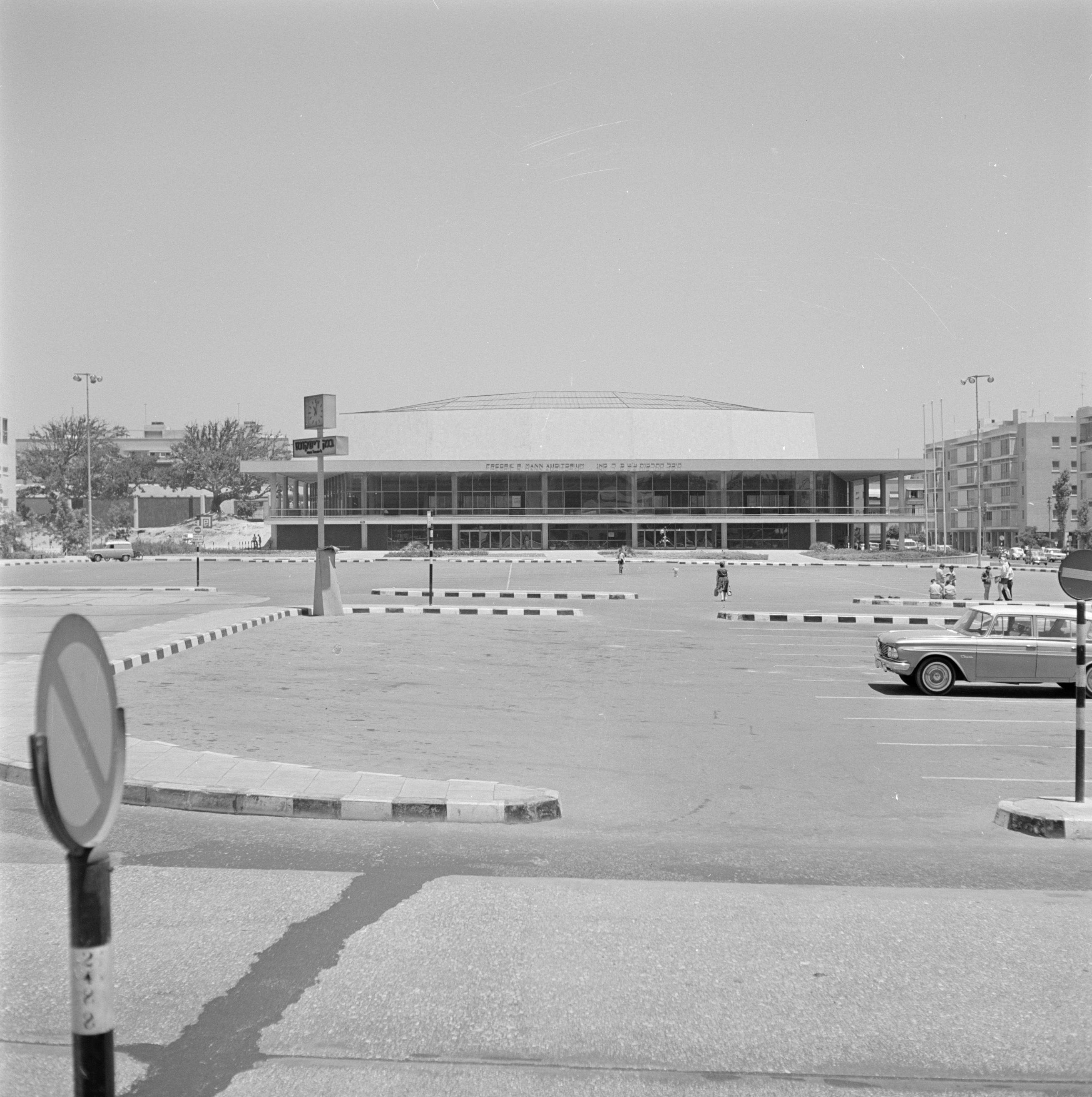 Habima Square